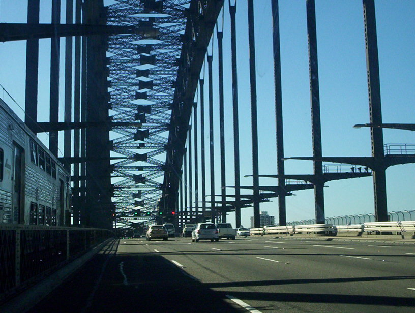 View of the Sydney Harbour Bridge, driving northwards. Note the Cityrail train on the left side.